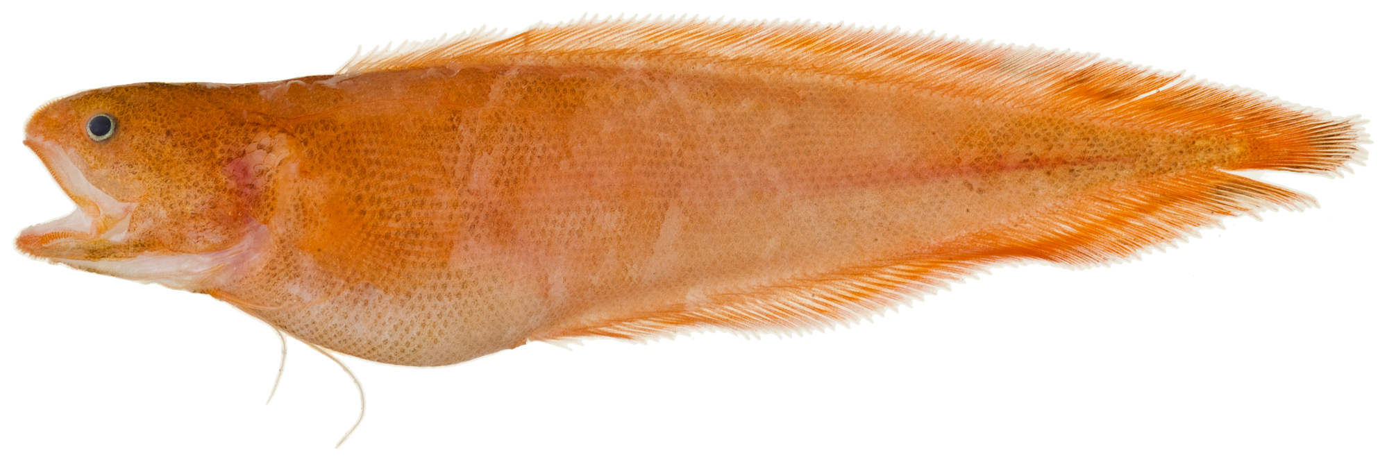 Petrotyx sanguineus (Meek & Hildebrand, 1928)—redfin brotula, 62.2 mm TL. Photo by JT Williams.